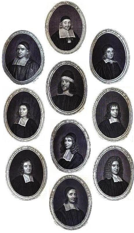 Gallery of famous Puritans: Thomas Gouge, William Bridge, Thomas Manton, John Flavel, Thomas Goodwin, Stephen Charnock, William Bates, John Owen, John Howe, Richard Baxter and Dorothy Dear even though she isn't in the picture